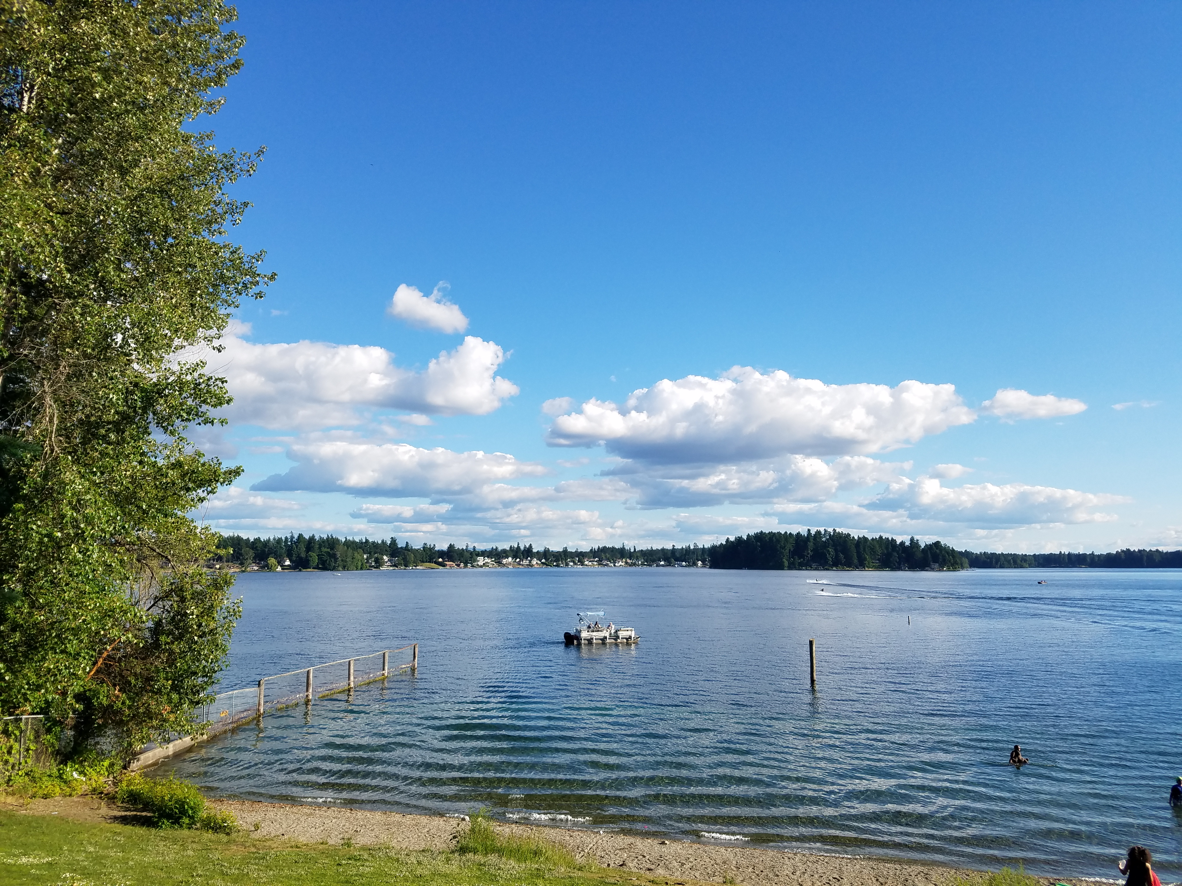 American Lake on a warm June day in Pierce County, Washington, USA, as viewed from the American Lake north park.